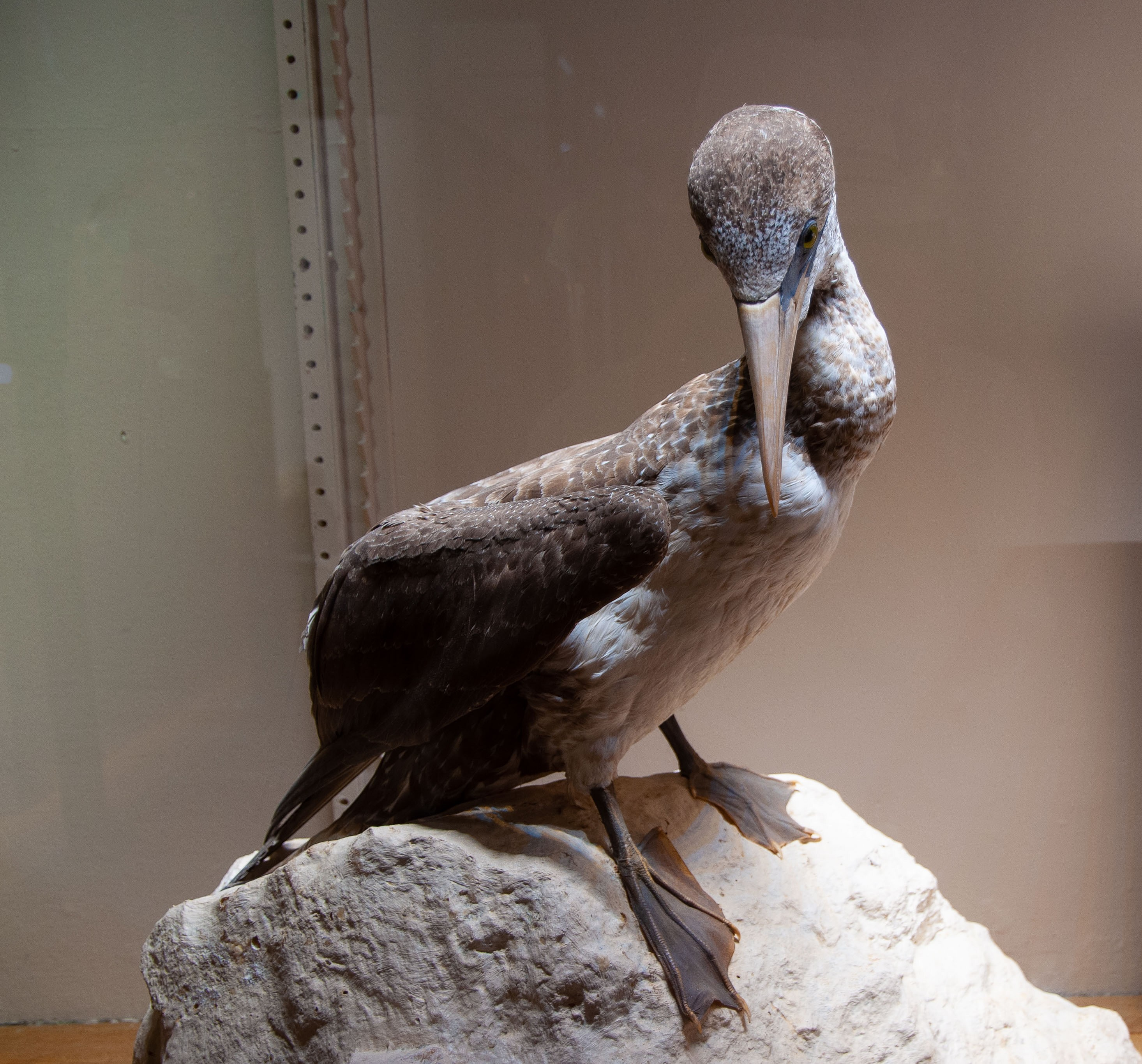 Naturalised Gannet, exhibited in the Whale Room of the Oceanographic Museum of Monaco.